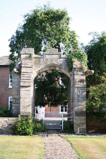 14th century gateway. The only remains of the medieval Kettlethorpe Hall